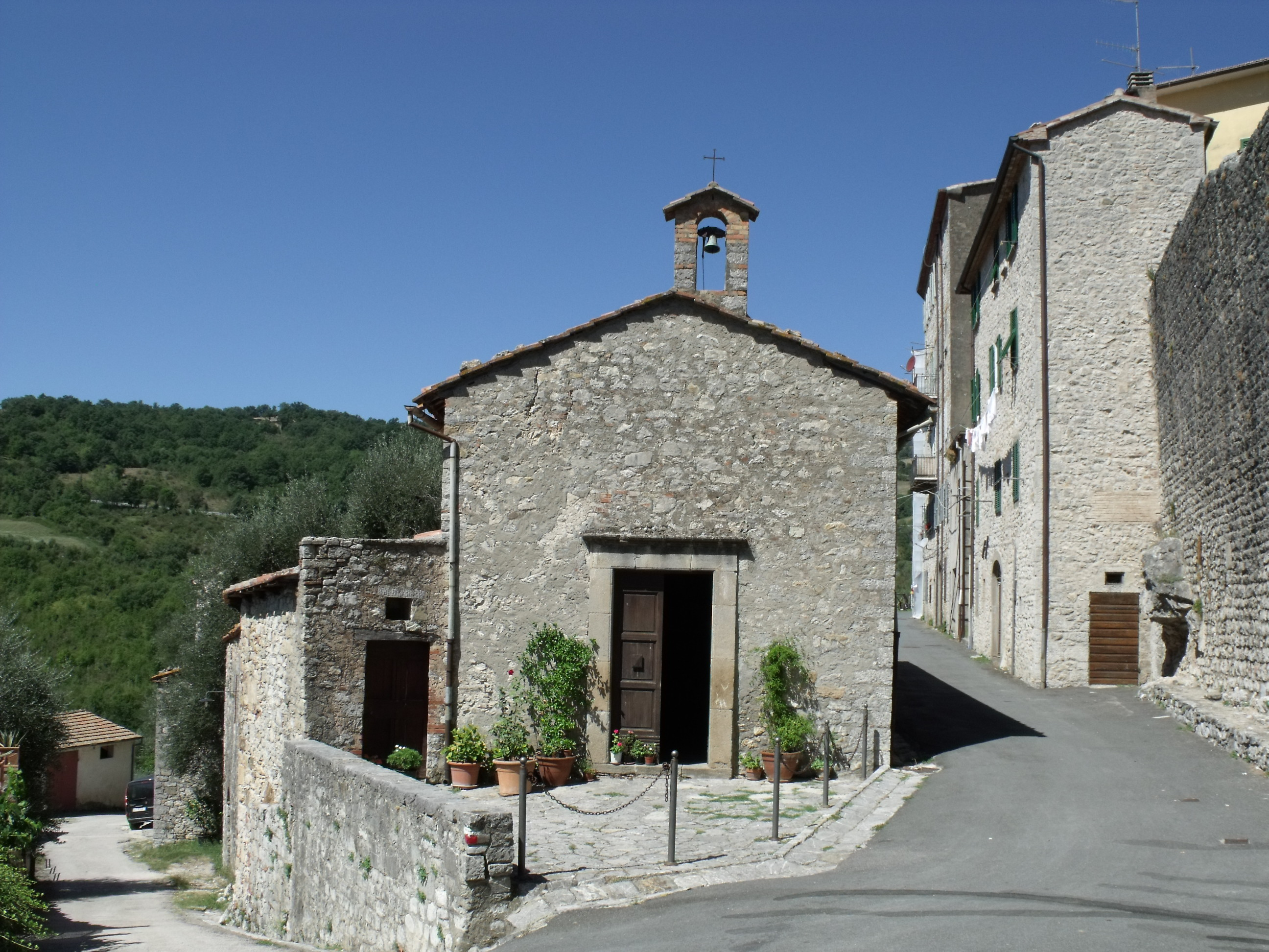 Church Madonna del Soccorso in Roccalbegna, Tuscany, Italy